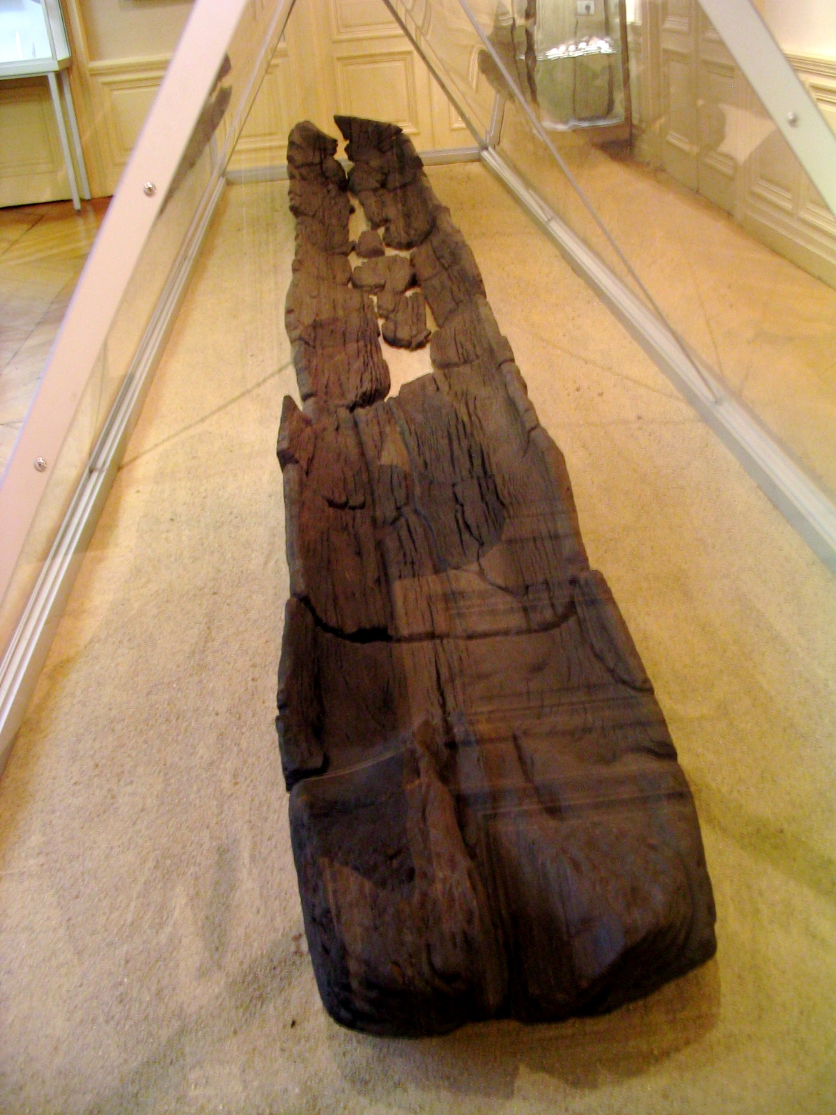 Dug-out, discovered at Bourg-Charente (France) in 1979. Dated from 3500 to 3000 BC (picture made at Cognac Museum)